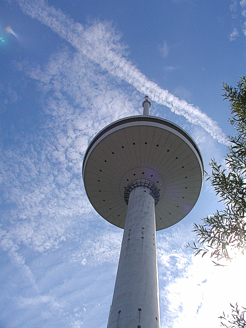 Friedrich Clemens Gerke tower from below